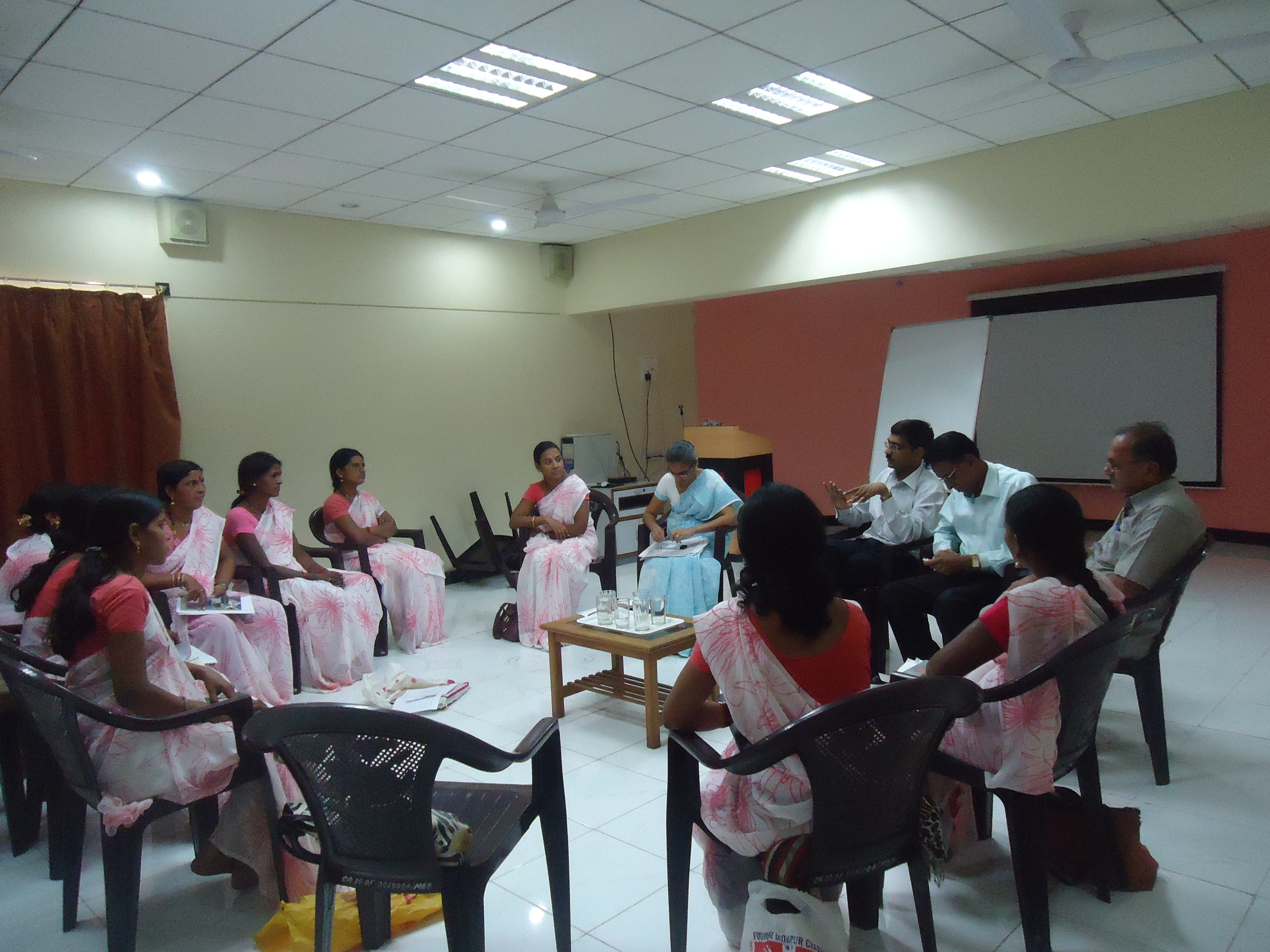 आशा बैठक